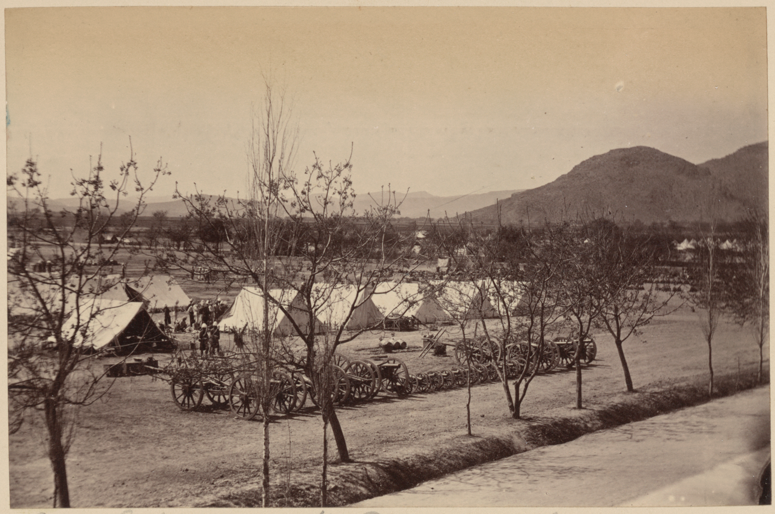 This photograph of captured Afghan artillery pieces at Peiwar Kotal is from an album of rare historical photographs depicting people and places associated with the Second Anglo-Afghan War. Mobile field guns of various sizes are arrayed in front of a line of British tents. In the foreground is a row of trees, probably watered from the irrigation ditch alongside. Peiwar Kotal was the site of a battle in late November 1878 between British forces under Sir Frederick Roberts (1832–1914), who outmaneuvered Afghan forces under an unknown commander. The result was a British victory and seizure of the Peiwar Kotal Pass. The Second Anglo-Afghan War began in November 1878 when Great Britain, fearful of what it saw as growing Russian influence in Afghanistan, invaded the country from British India. The first phase of the war ended in May 1879 with the Treaty of Gandamak, which permitted the Afghans to maintain internal sovereignty but forced them to cede control over their foreign policy to the British. Fighting resumed in September 1879, after an anti-British uprising in Kabul, and finally concluded in September 1880 with the decisive Battle of Kandahar. The album includes portraits of British and Afghan leaders and military personnel, portraits of ordinary Afghan people, and depictions of British military camps and activities, structures, landscapes, and cities and towns. The sites shown are all located within the borders of present-day Afghanistan or Pakistan (a part of British India at the time). About a third of the photographs were taken by John Burke (circa 1843–1900), another third by Sir Benjamin Simpson (1831–1923), and the remainder by several other photographers. Some of the photographs are unattributed. The album possibly was compiled by a member of the British Indian government, but this has not been confirmed. How it came to the Library of Congress is not known. Afghan Wars; Cannons; Great Britain. Army; Military camps; Soldiers; Tents